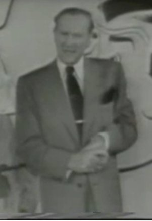 Screen capture of Bud Abbott, from the link posted. Sharpened and lightened a bit. From the Colgate Comedy Hour with Abbott and Costello, 1951. From the Video Cellar Collection on . Public domain: "Unless otherwise noted, the films in this collection are public domain and are free to be redistributed, reused or remixed. "